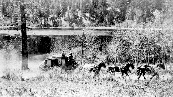 Photographer:Unknown Photo taken:1880 Source:BC Archives #A-03074 [1]